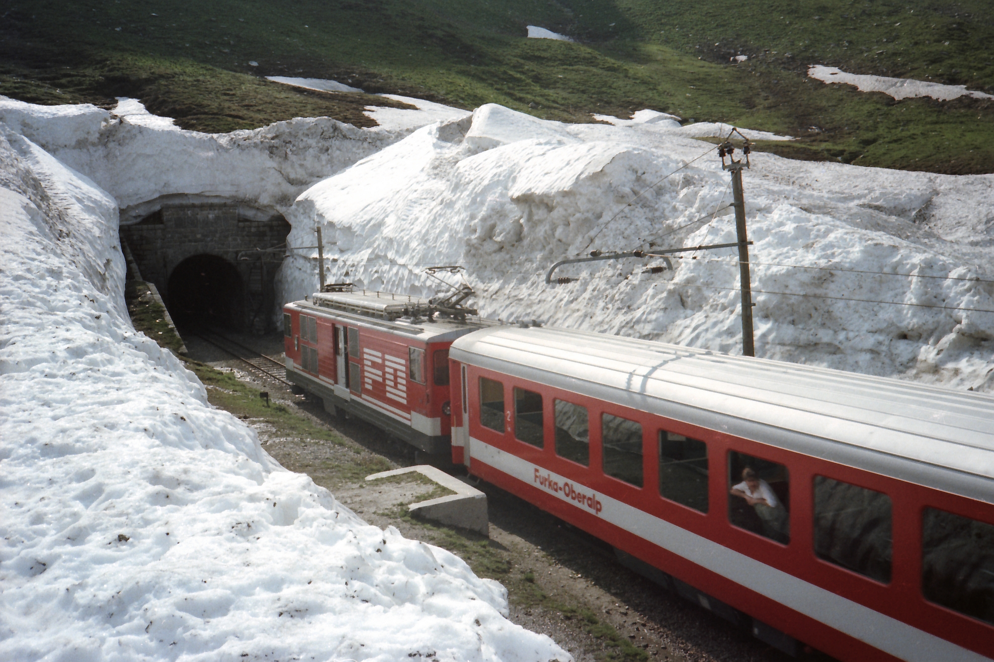 Muttbach-Belvedere Station (Furka Cogwheel Steam Railway), 2120 m above sea level, FO old Furkatunnel (Switzerland). Today no electrical operation, only steam/diesel.